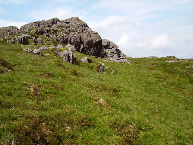 North ridge of Knockboy. Sandstone outcrop with vertical bedding planes. Much of the land here is bog and rough grassland, but there are frequent rock exposures.